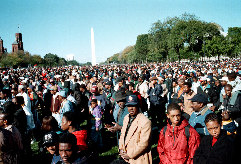 Million man march, Washington DC, 1995 - great manifestation organized by Nation of Islam